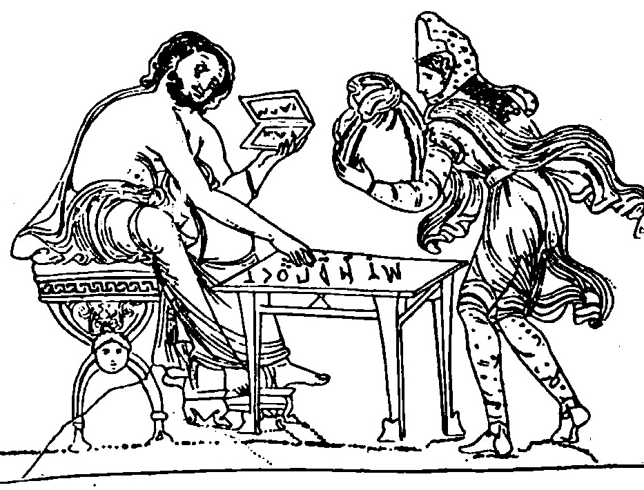 An abax or counting table, part of a drawing of the Darius Vase, in the Museo Archeologico Nazionale, Napoli.